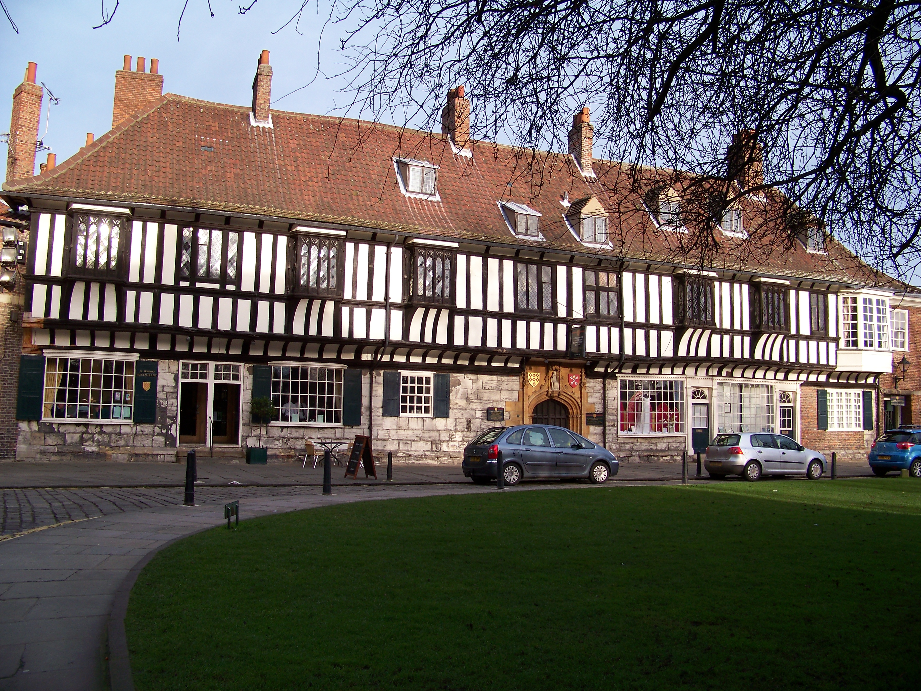 Originally a college of the Priests of York Minster built around 1465. As of 2009 the building was being used as a restaurant and an events and functions venue.